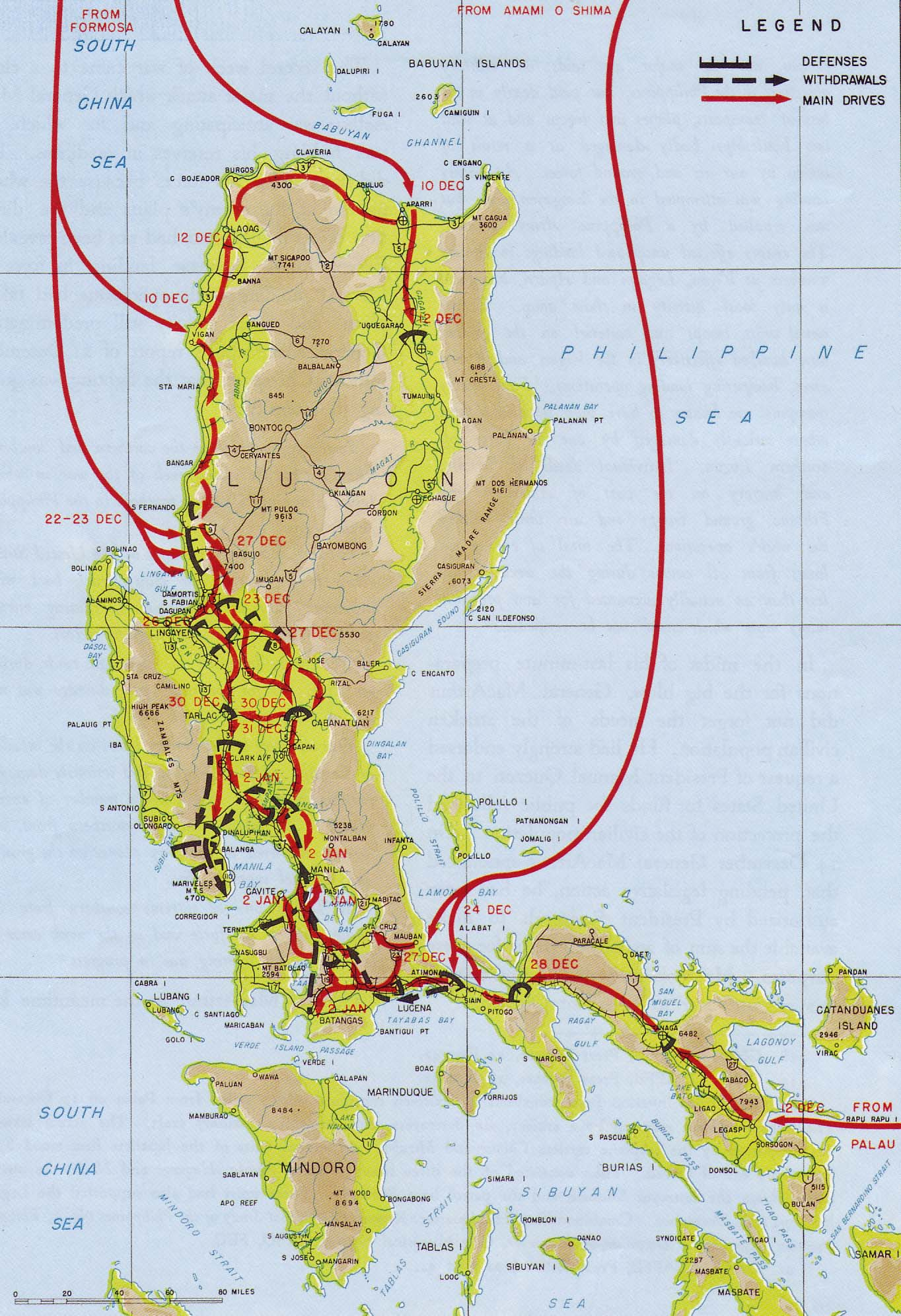 Japanese Operations on Luzon, December 1941